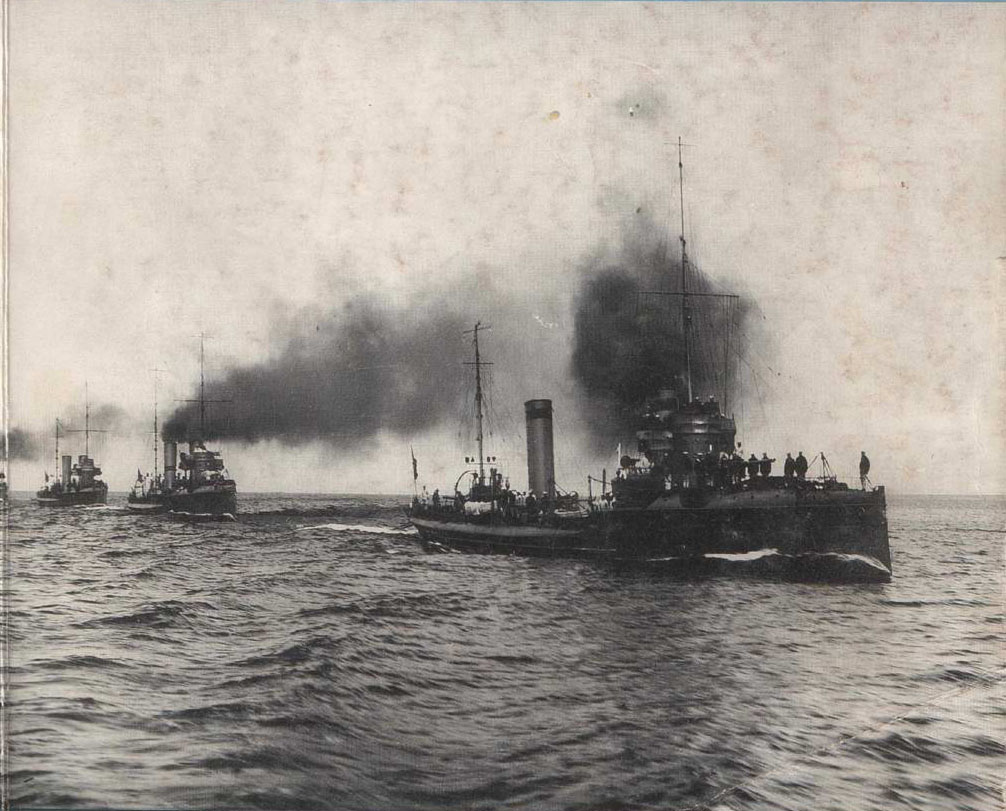 Imperial Russian destroyer Dobrovolets, Moskvityanin and Emir Bukharskiy.